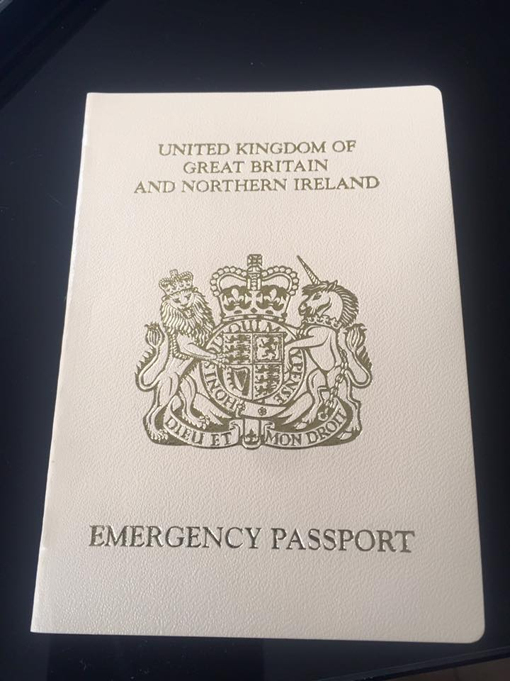 A temporary passport with a cream coloured cover.